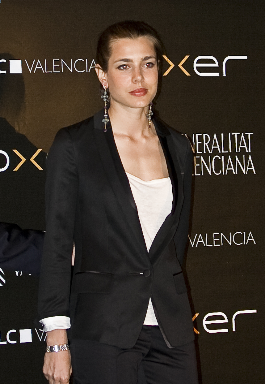 2010 Global Champions Tour. The awards ceremony was held at the Palau de les Arts Reina Sofía in Valencia, Spain.